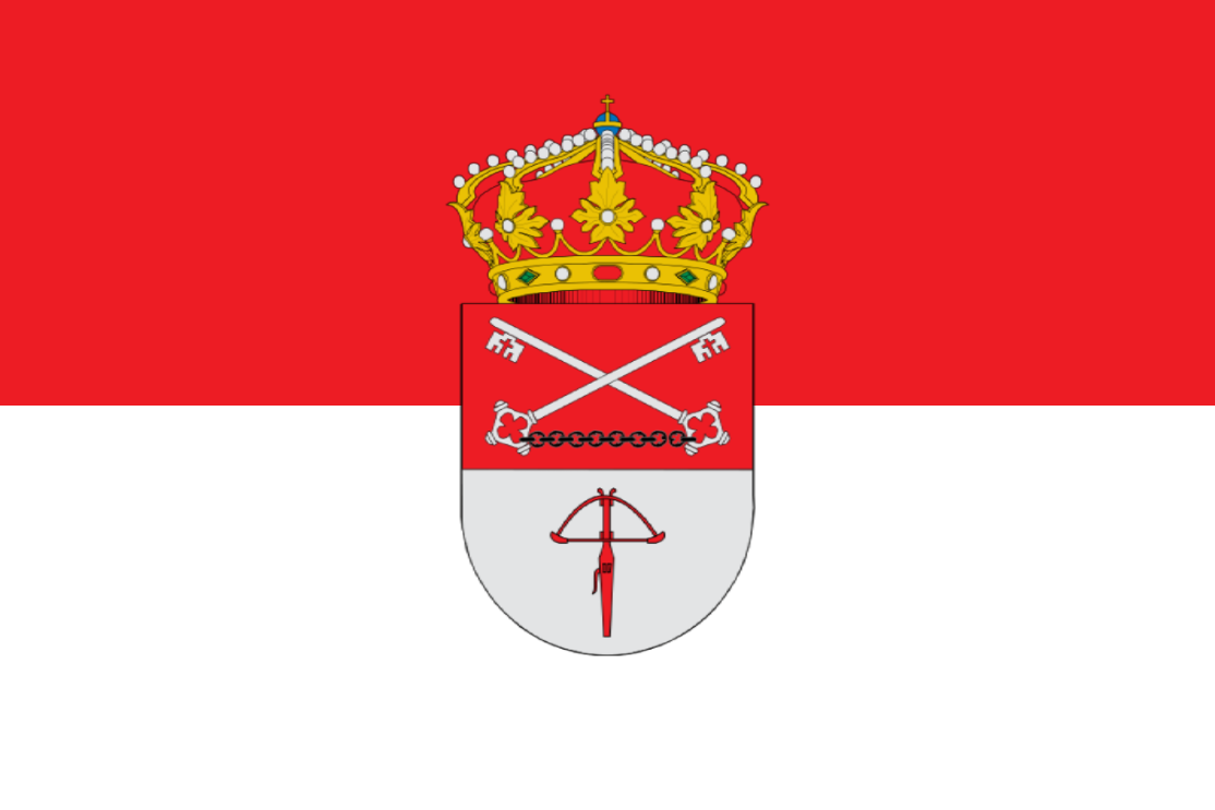 Flag of El Ballestero made based on File:Bandera El Ballestero.jpg using File:Escudo de El Ballestero (Albacete).svg